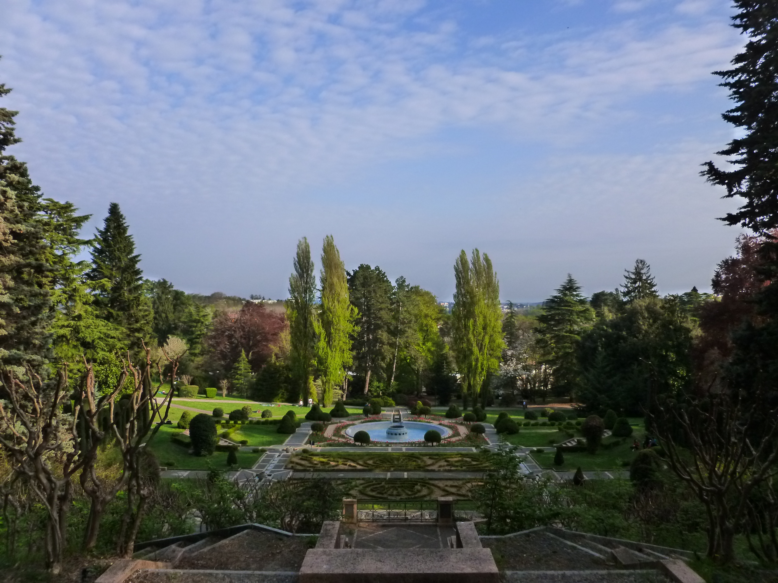 Villa Toeplitz